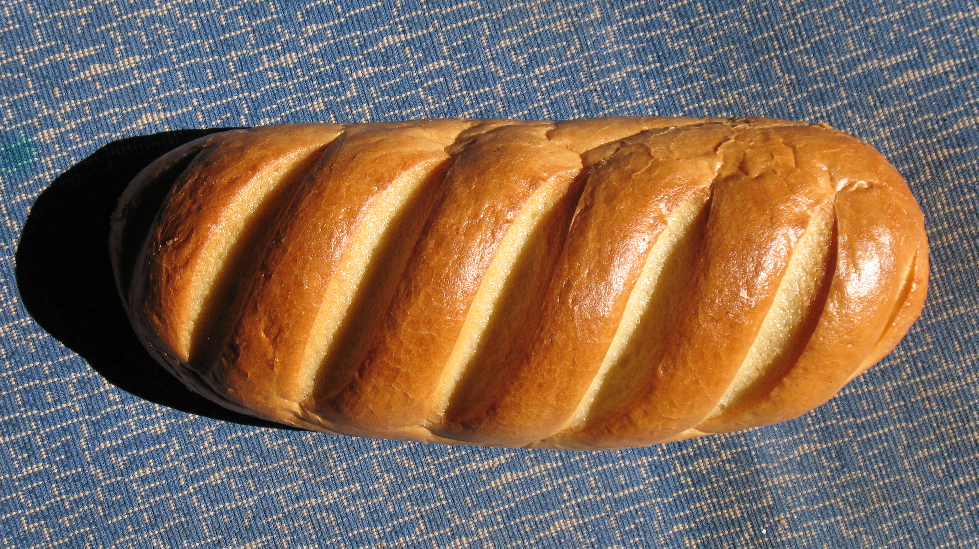 Sloboda baton.